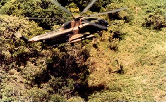 A U.S. Air Force Sikorsky HH-53C Super Jolly Green Giant helicopter lowers a pararescueman into the jungle during a rescue mission in June 1970. The PJ is barely visible below the drop tank.